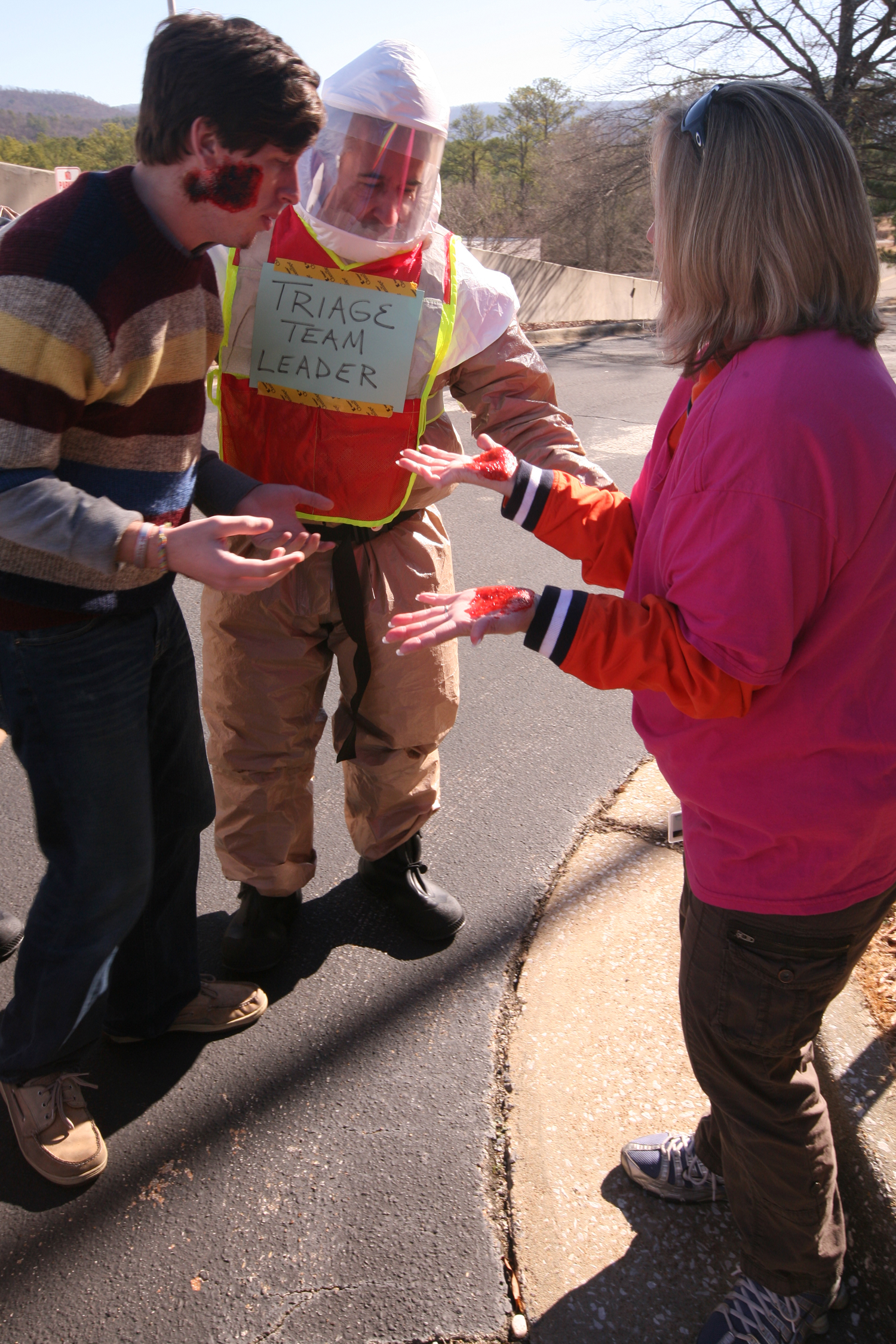 Anniston, AL, January 21, 2011 -- Healthcare workers triage simulated victims during an exercise at the Center for Domestic Preparedness, located in Anniston, Ala. These students were attending the Hospital Emergency Response Training (HERT) for Mass Casualty Incidents course that places emergency response providers in a realistic mass-casualty training scenario. For more information on the CDP's, more than 50, specialized programs and courses, please visit their web site at